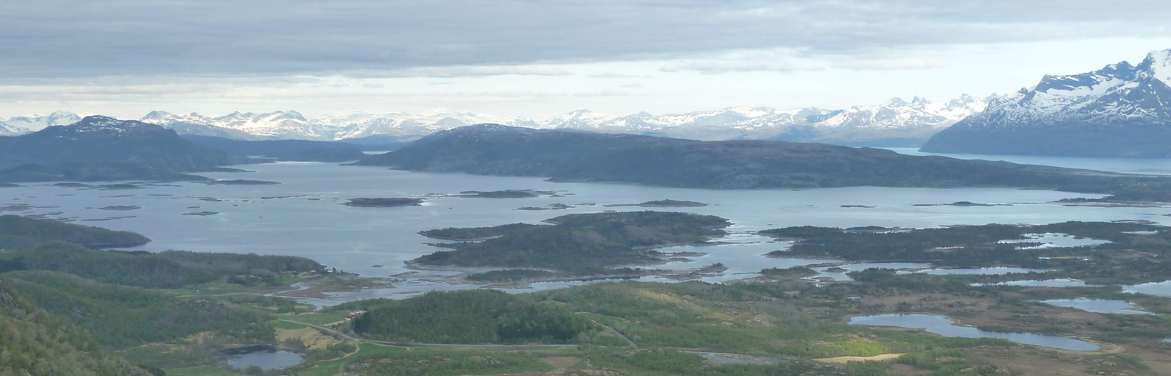 Kaldvågfjorden in Hamarøy, Norway. Entrance in the middle right. Mouth of Lilandspollen in middle left. Finnøya streching from the middle to the middle right. Norsk (bokmål): Sagfjorden i Hamarøy. Innløpet midt på høyrekanten, mot Lilandspollens innløp midt på venstrekanten av bildet. Fra Lilandspollen opp mot Kaldvåg og Kaldvågstraumen.